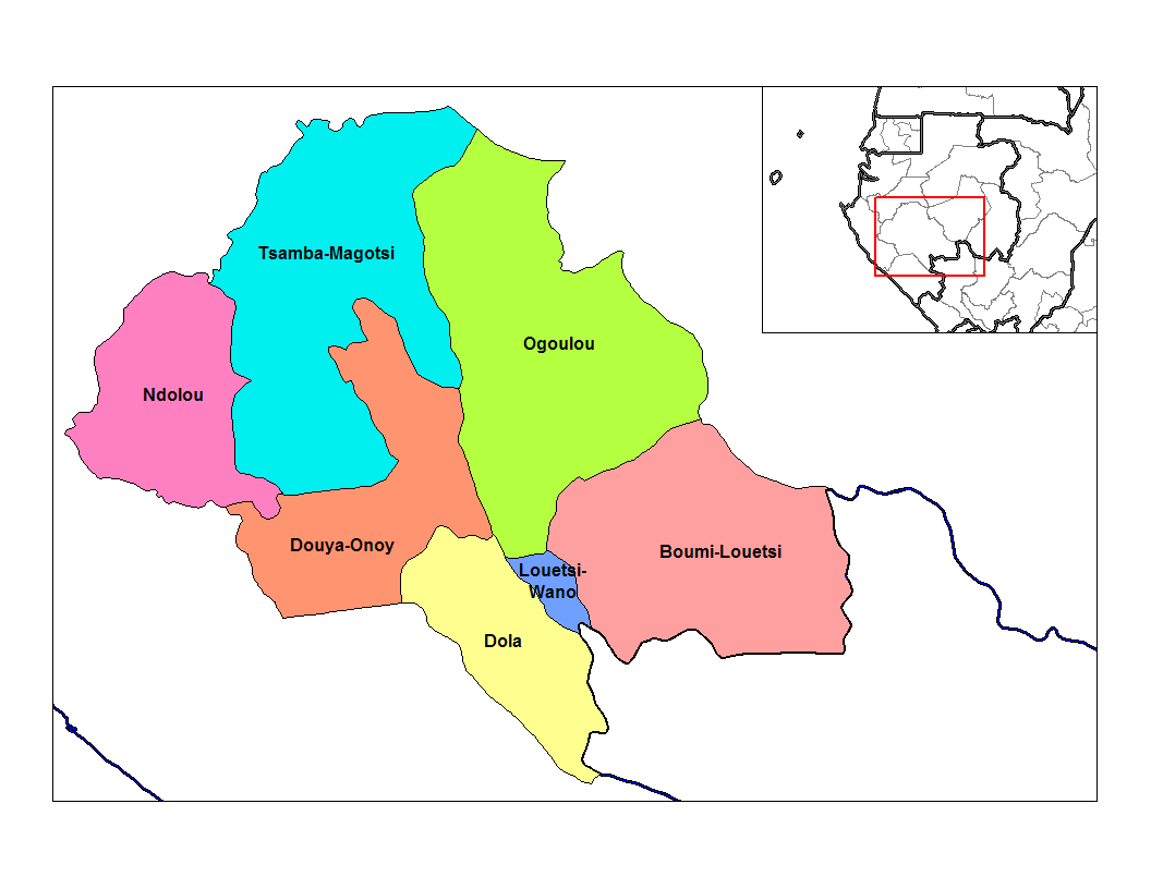 Map of the departments of Ngounie province in Gabon. Created by Rarelibra 20:21, 2 January 2007 (UTC) for public domain use, using MapInfo Professional v8.5 and various mapping resources.